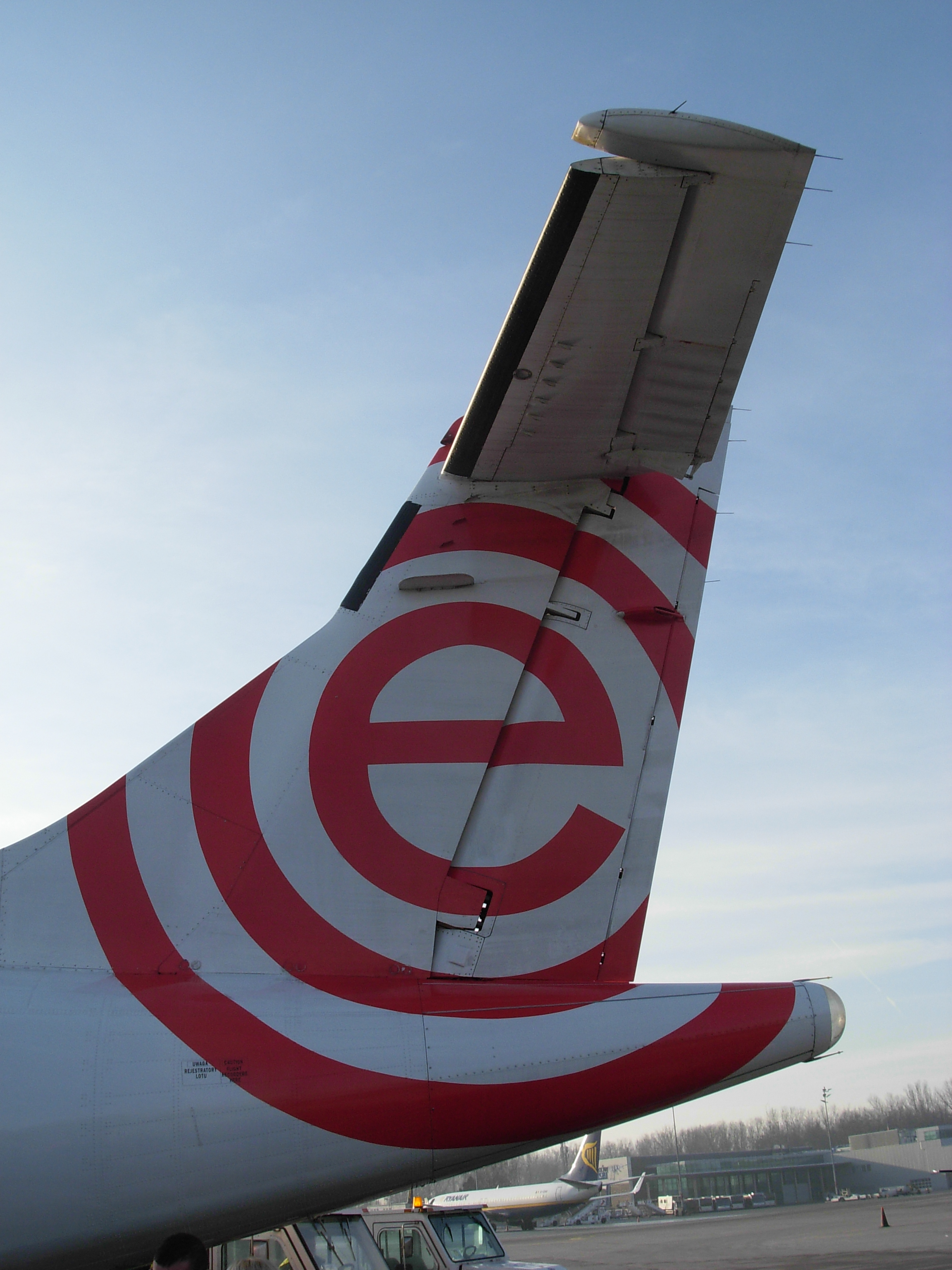 The tail of an ATR-72-202 (SP-LFB)